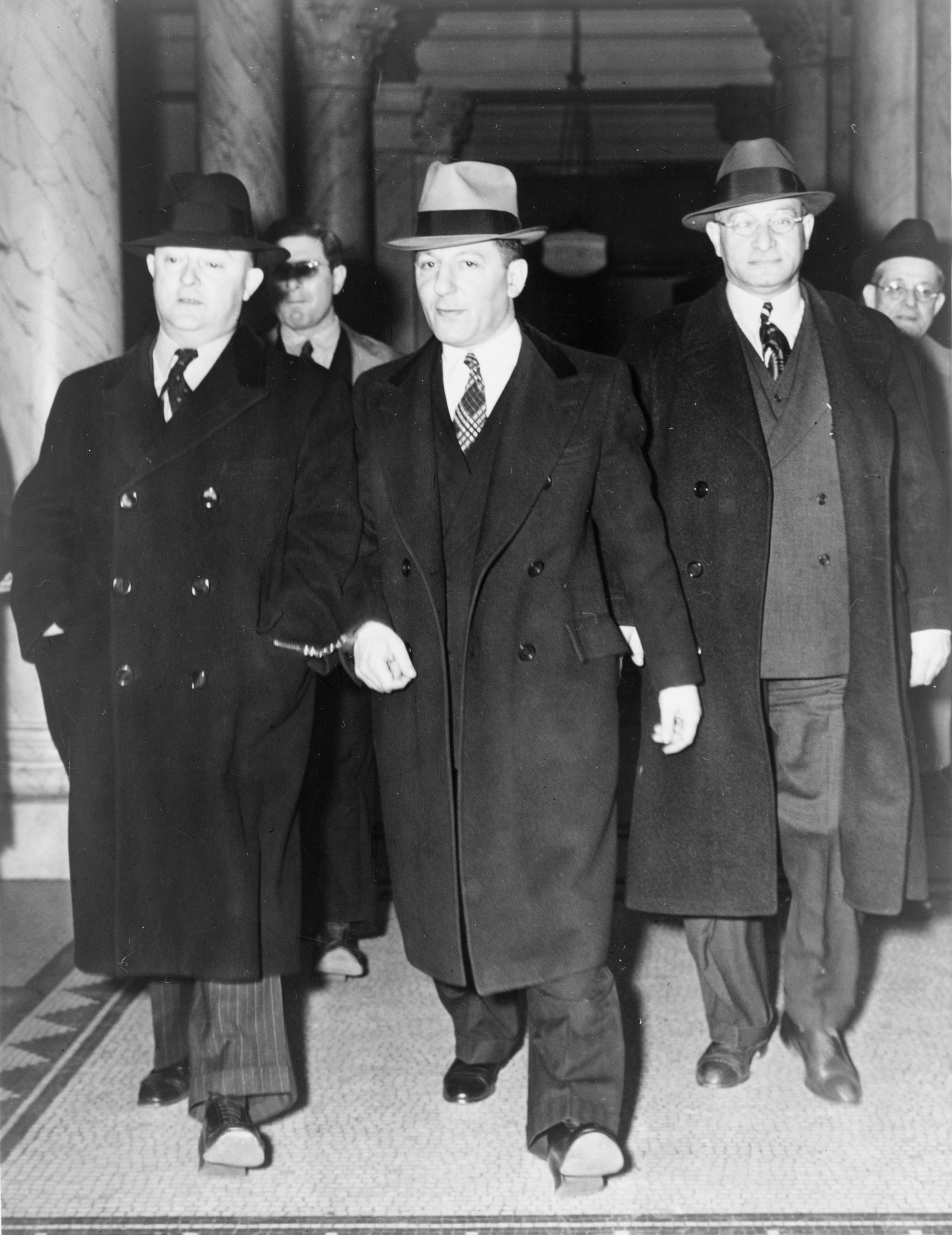 Louis "Lepke" Buchalter, center, handcuffed to J. Edgar Hoover, on the left, with another man on the right, at entrance to courthouse